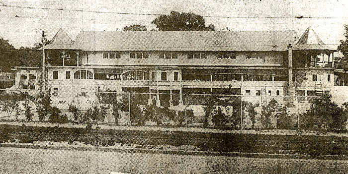 Indianola Park Pavilion - Ohio State Journal, July 4, 1926